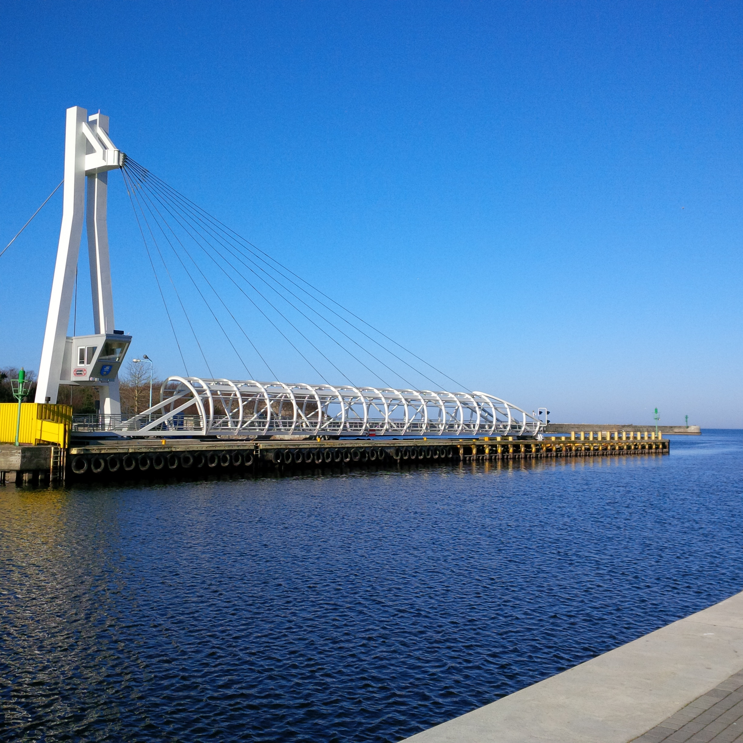 Closed pedestrian swing bridge in Ustka, PL